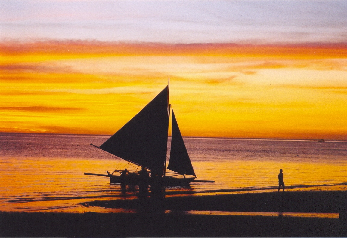 Sunset on White Beach Borocay Island picture taken by Magalhães in 2003